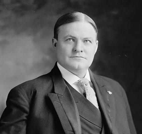 Kentucky Congressman John Langley